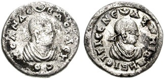 Coin of the Axumite king Ousanas